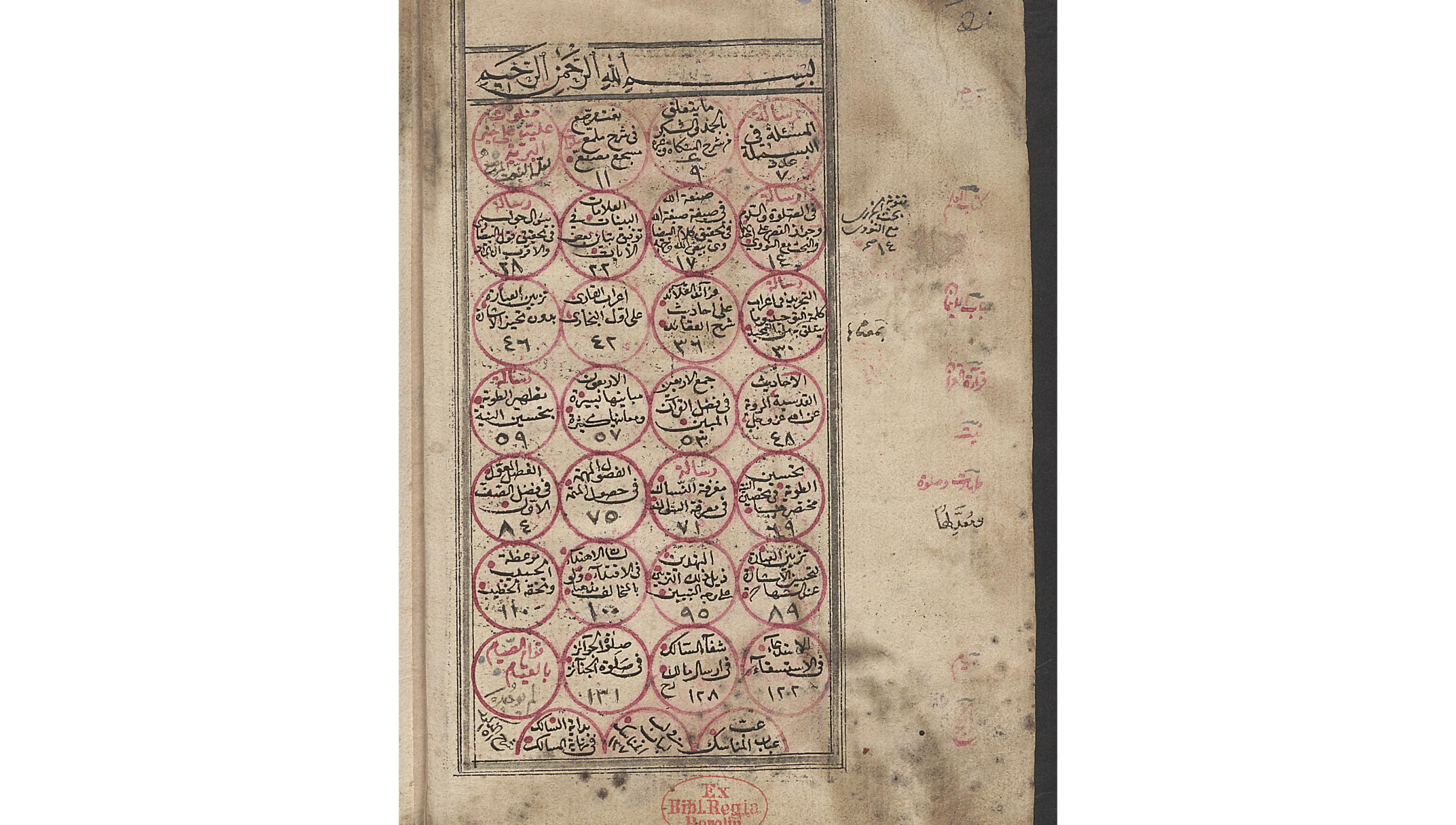 First page of table of contents ot the manuscript Berlin Lbg 295, a collection of treatises by the Meccan scholar Mulla Ali al-Qari (d. 1606)